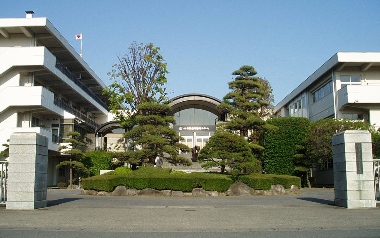 Main entrance to Gunma Prefectural Maebashi High School located in Shimookimachi, Maebashi, Gunma, Japan.